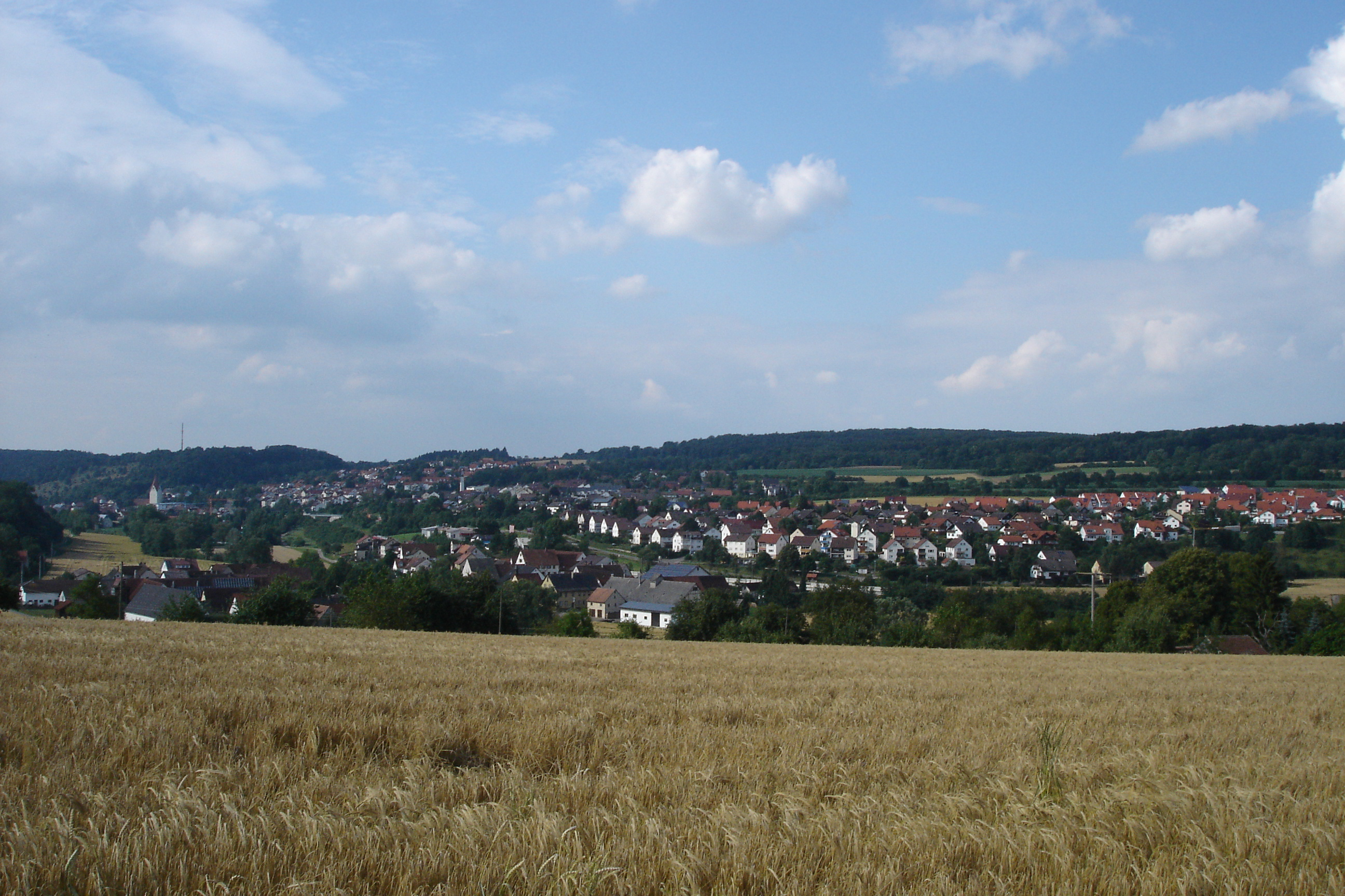 the village of Lonsee and its incorporated village Halzhausen, view from the south